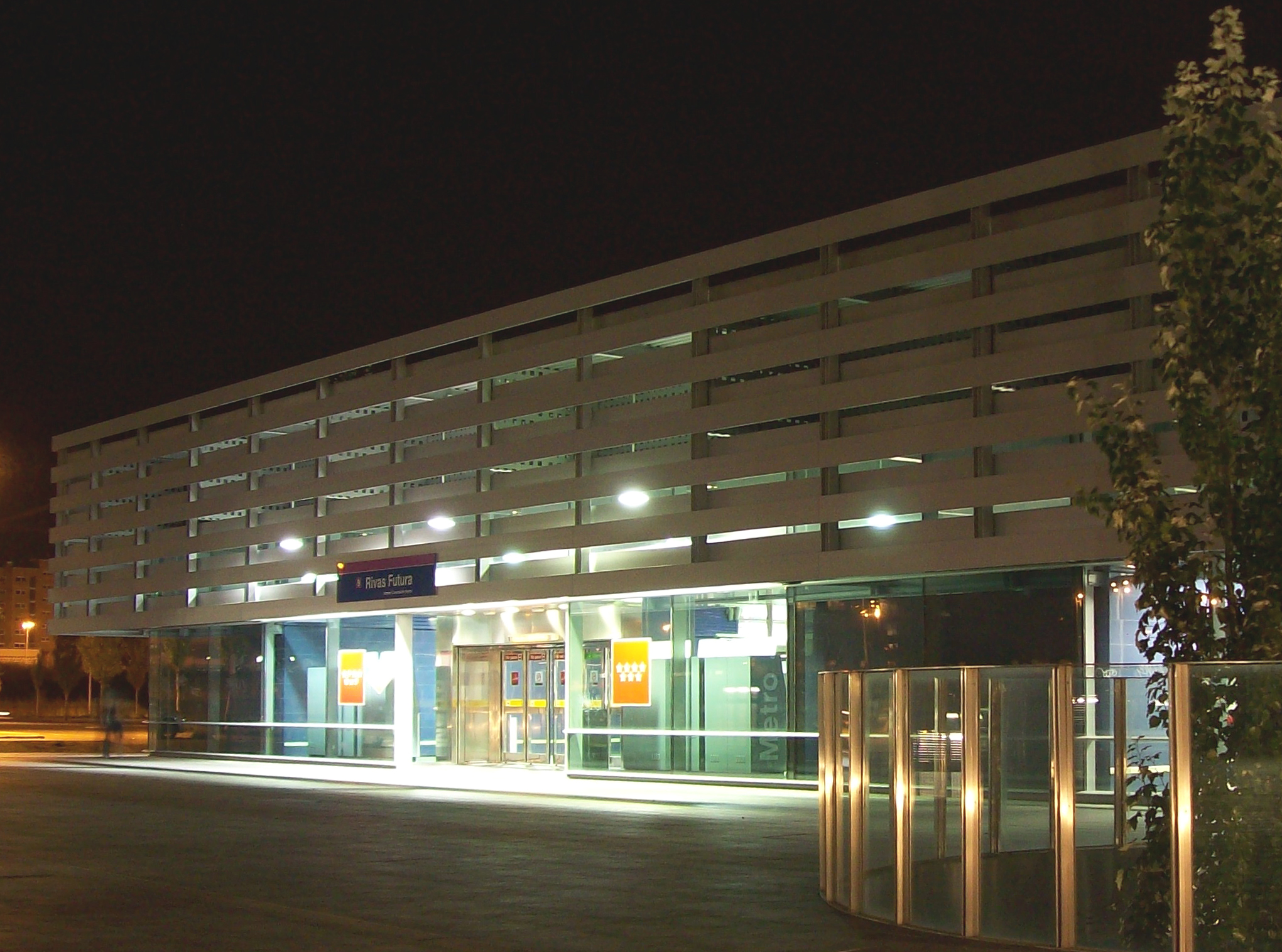 Entrance of Rivas Futura Metro station in Rivas-Vaciamadrid (Community of Madrid, Spain).